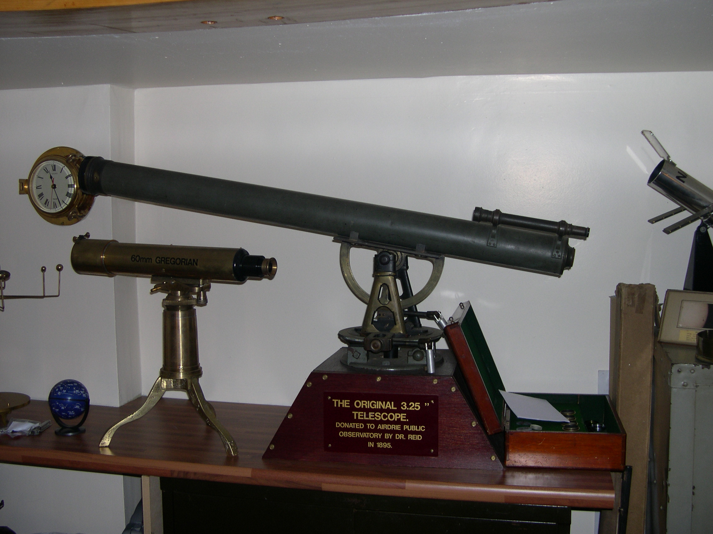 Dr Reid 3.5 inch refractor in Airdrie Public Observatory